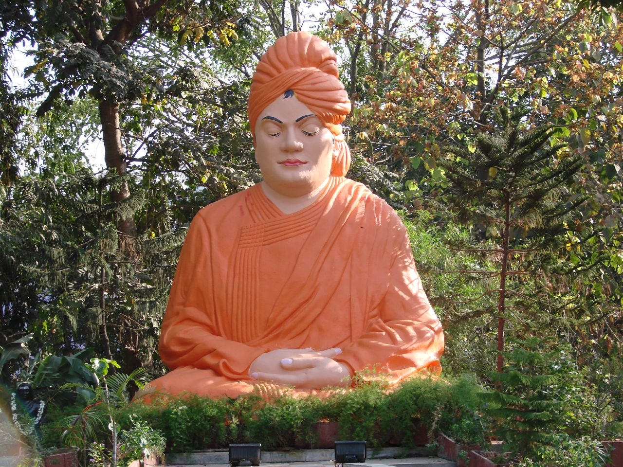 Statue of Swami Vivekananda in meditative pose at Ramakrishna Math, Ulsoor, Bangalore, Karnataka, India